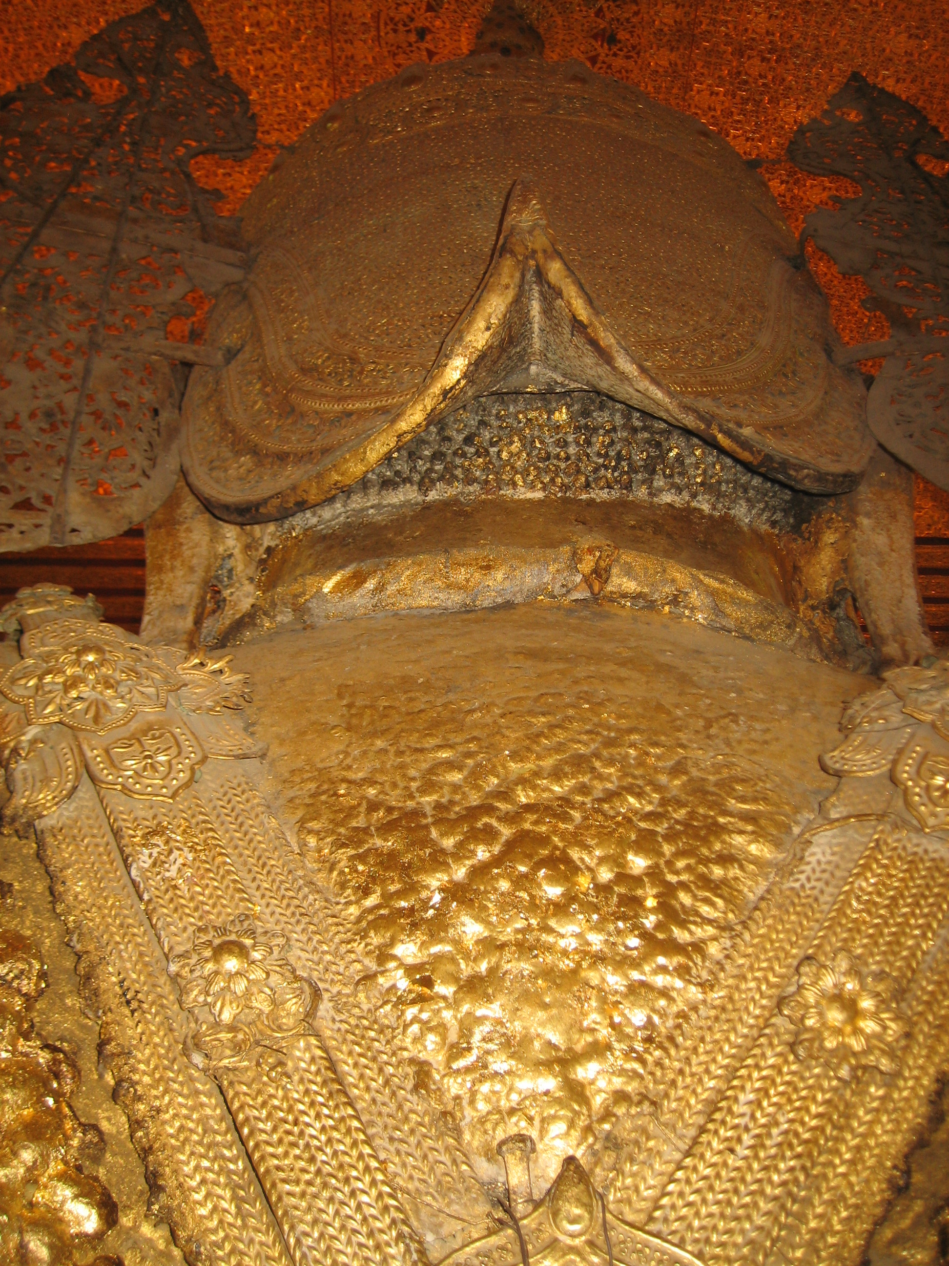 The backside of the Maha Muni Buddha.